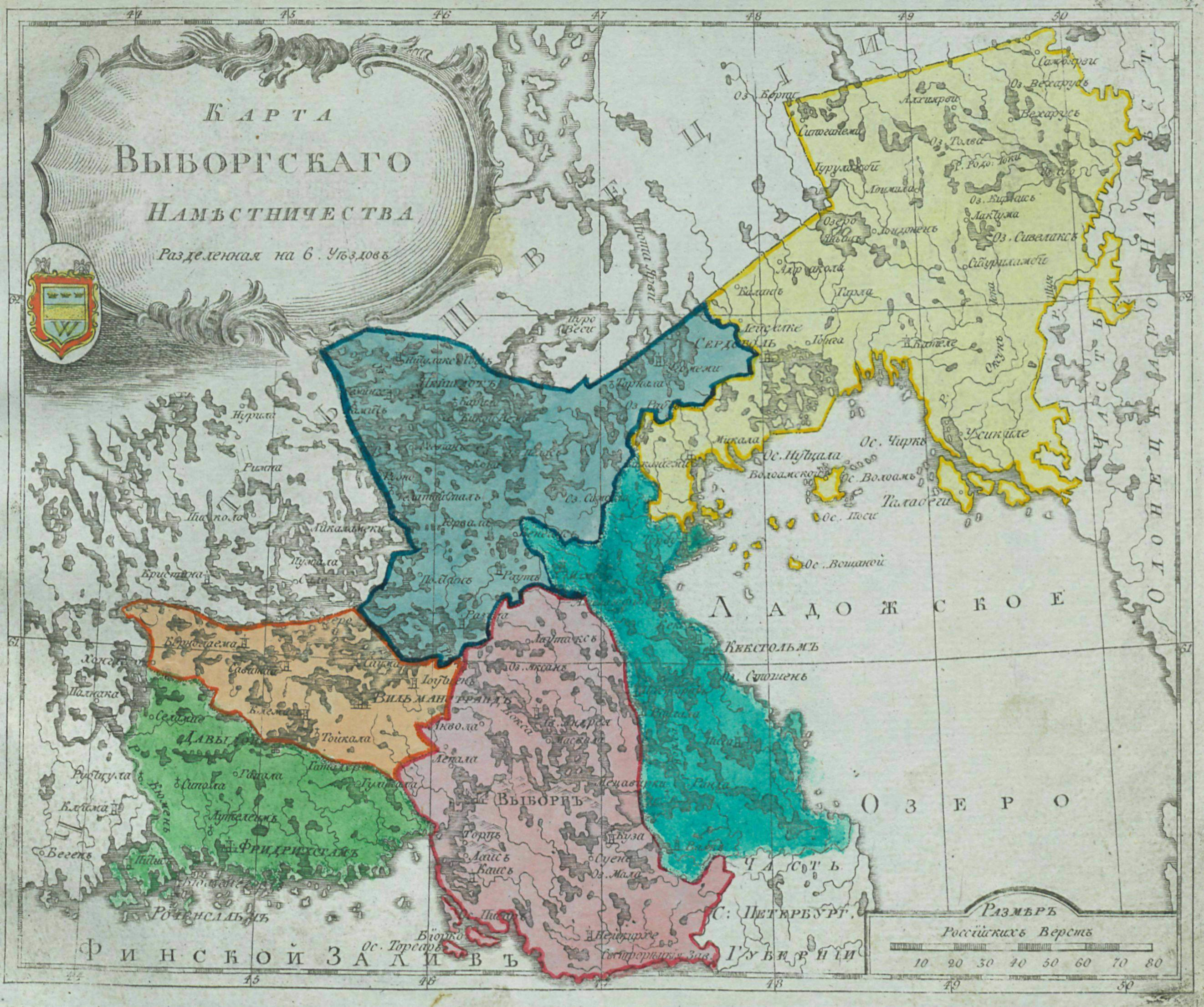 Small atlas of the Russian Empire (1792). Map of Vyborg Namestnichestvo (map 3).